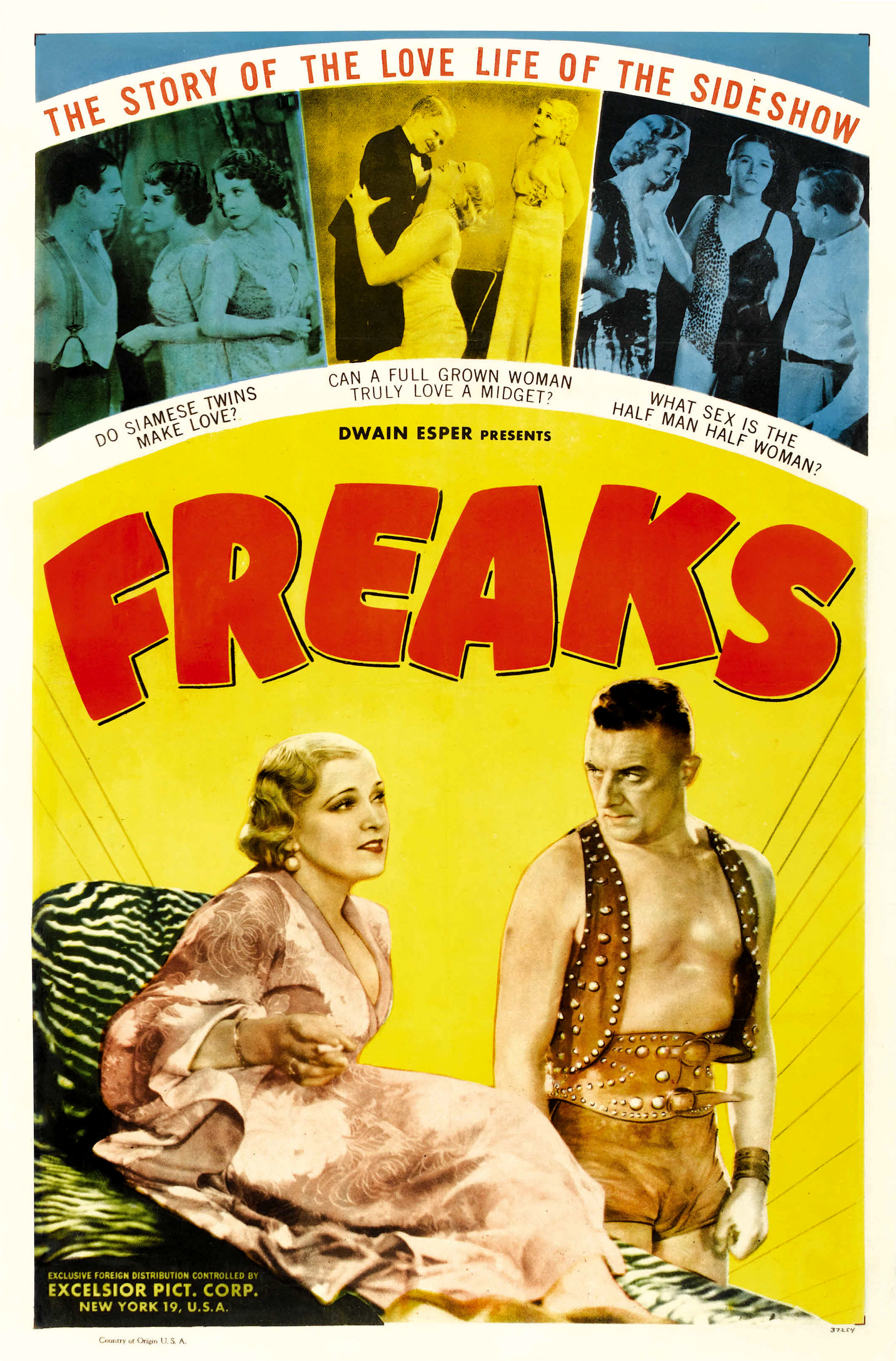 Theatrical poster for the American release of the 1932 film Freaks.